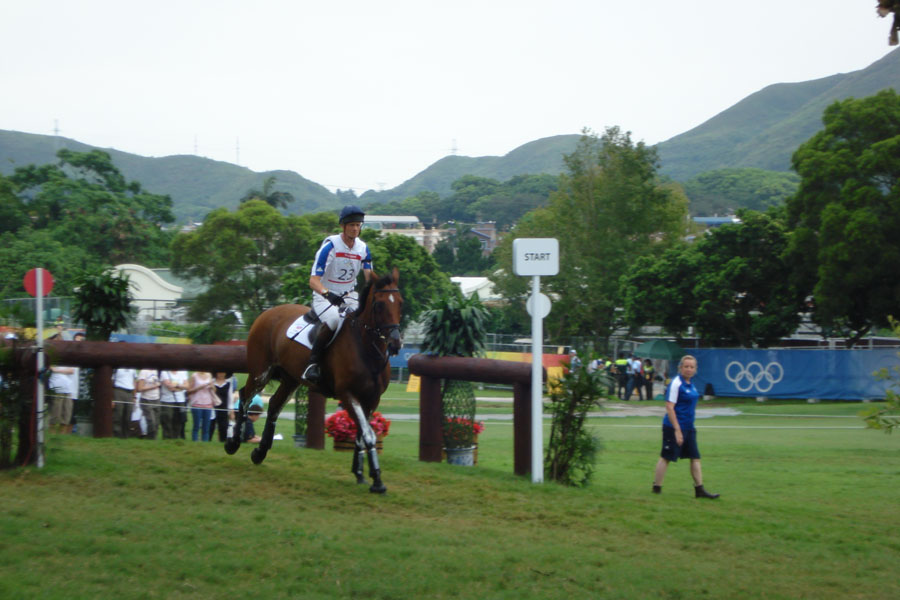 Beijing 2008 Olympic Game - Equestrian Event - Cross-Country Test of the Eventing Competition, held on The Olympic Equestrian Venue (Beas River) on 2008.8.13. Fox-Pitt William/Parkmore Ed, representative of Great Britain in Eventing.